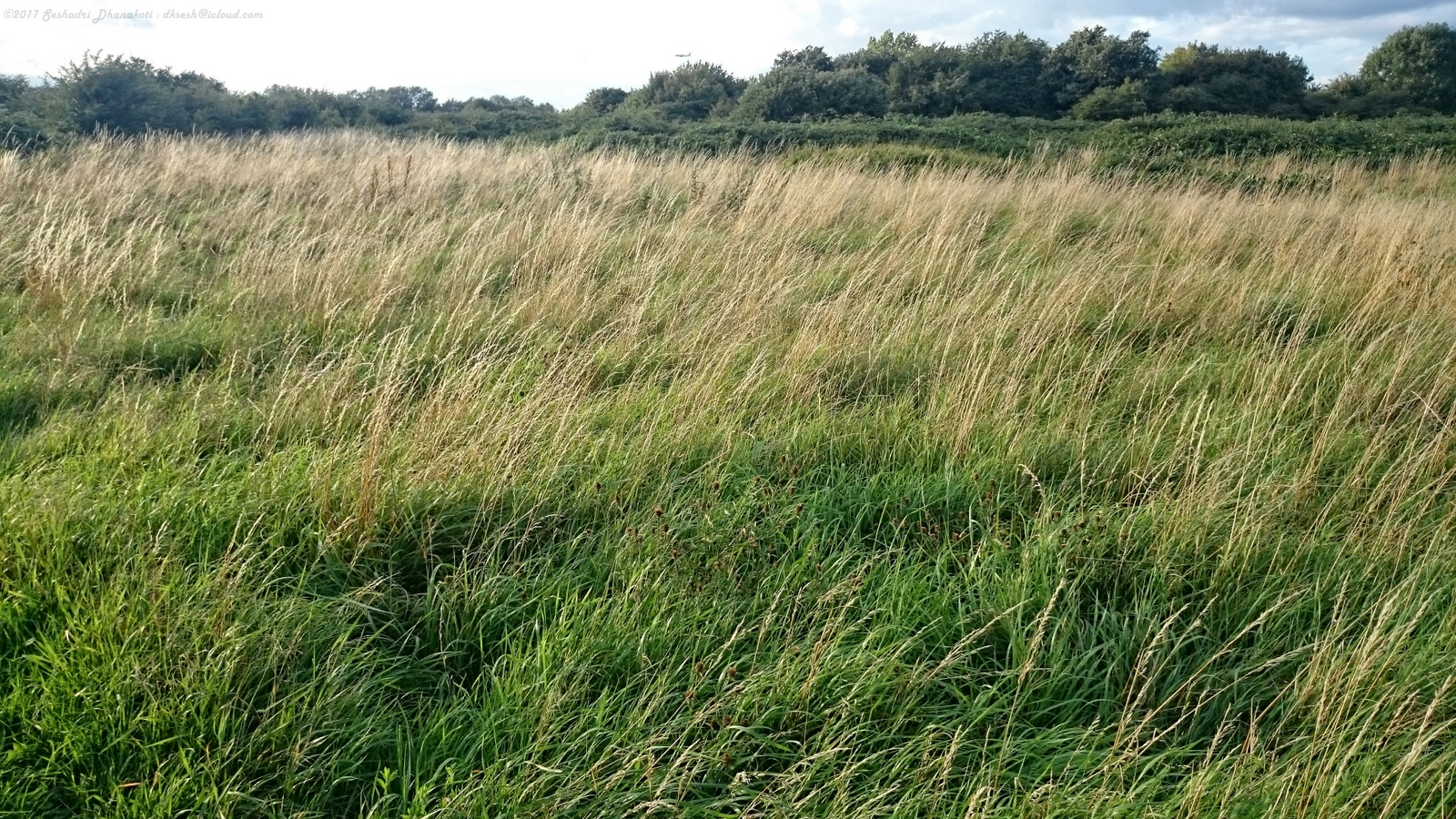 Taken at Hounslow Heath nature reserve during a jog after a hectic Gym workout nearby.